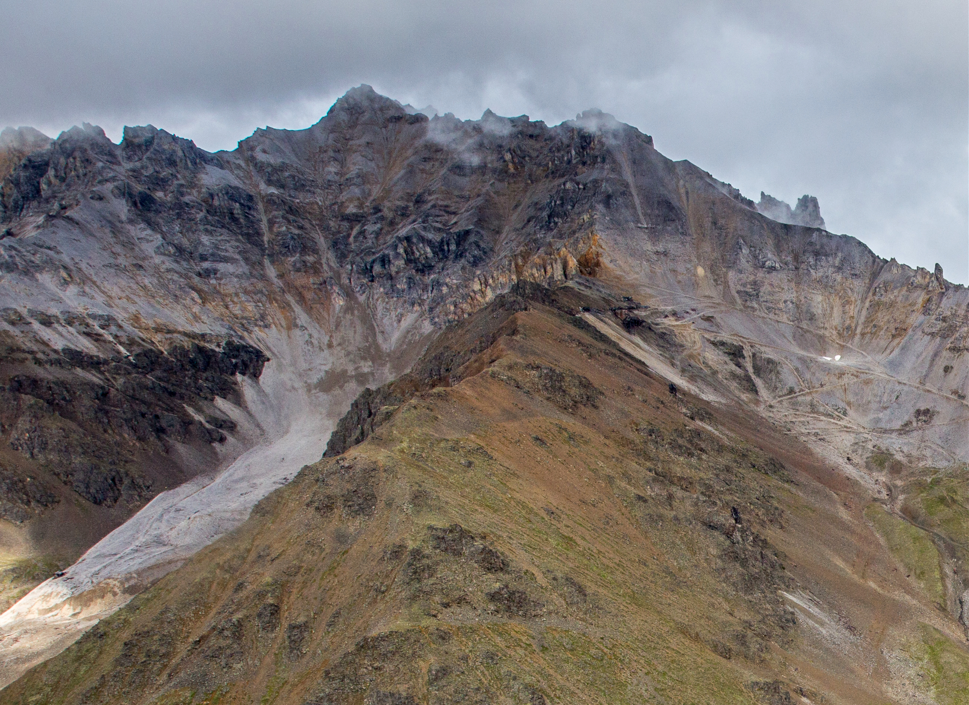 Summit of Bonanza Peak in Alaska. See annotation for Bonanza Mine ruins